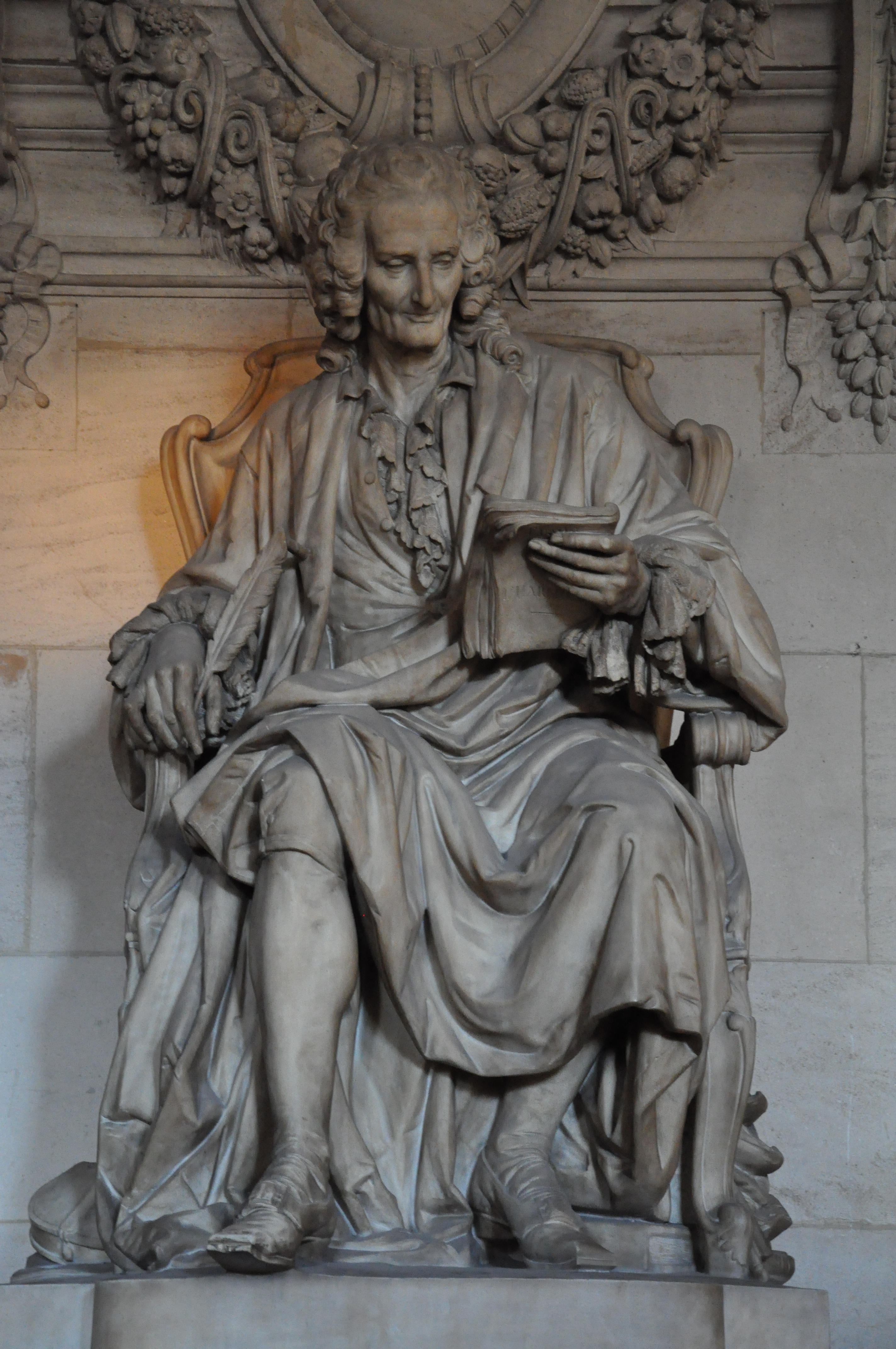 Statue of Jean-Philippe Rameau, in Palais Garnier Paris).